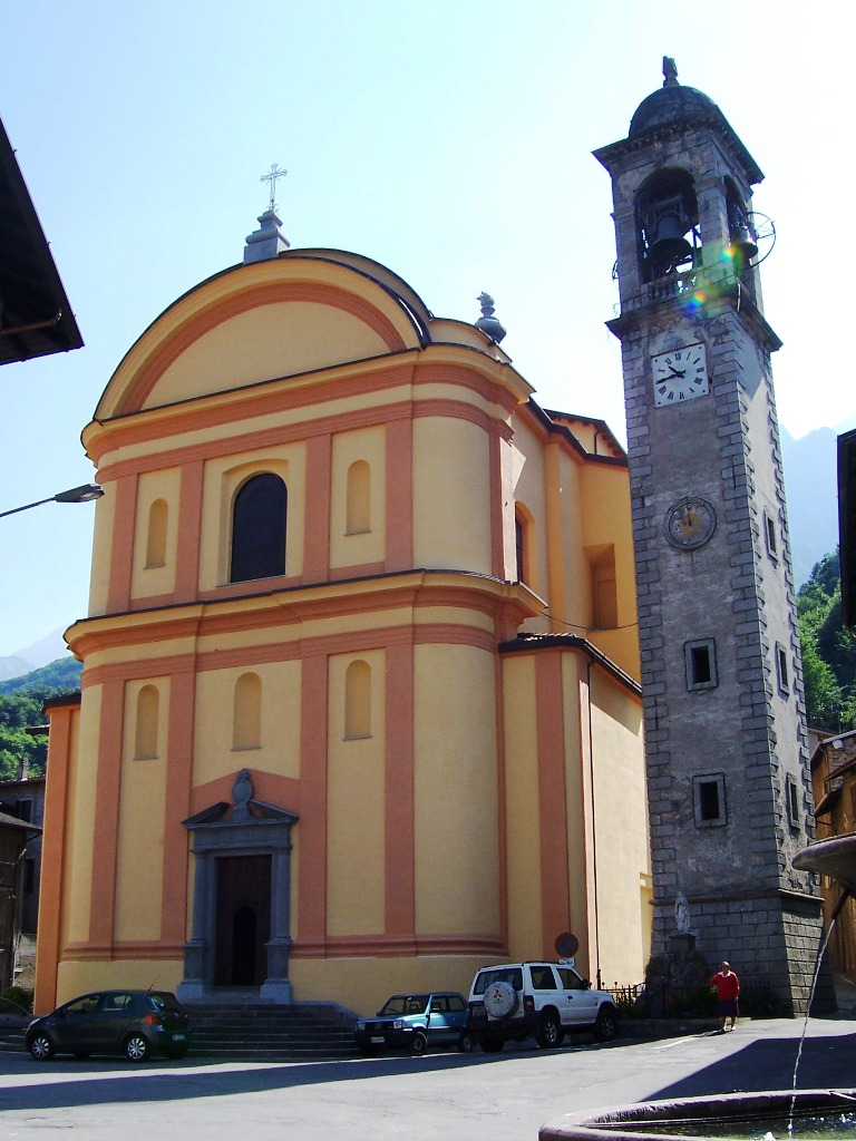 Church of St Maurice. Niardo, Val Camonica